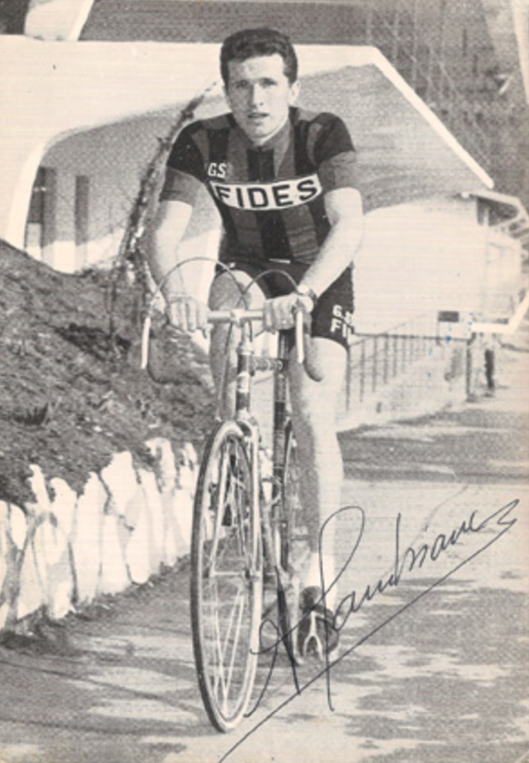 Arnaldo Pambianco 1961 postcard